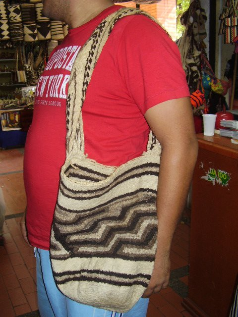 Arhuaca knapsack